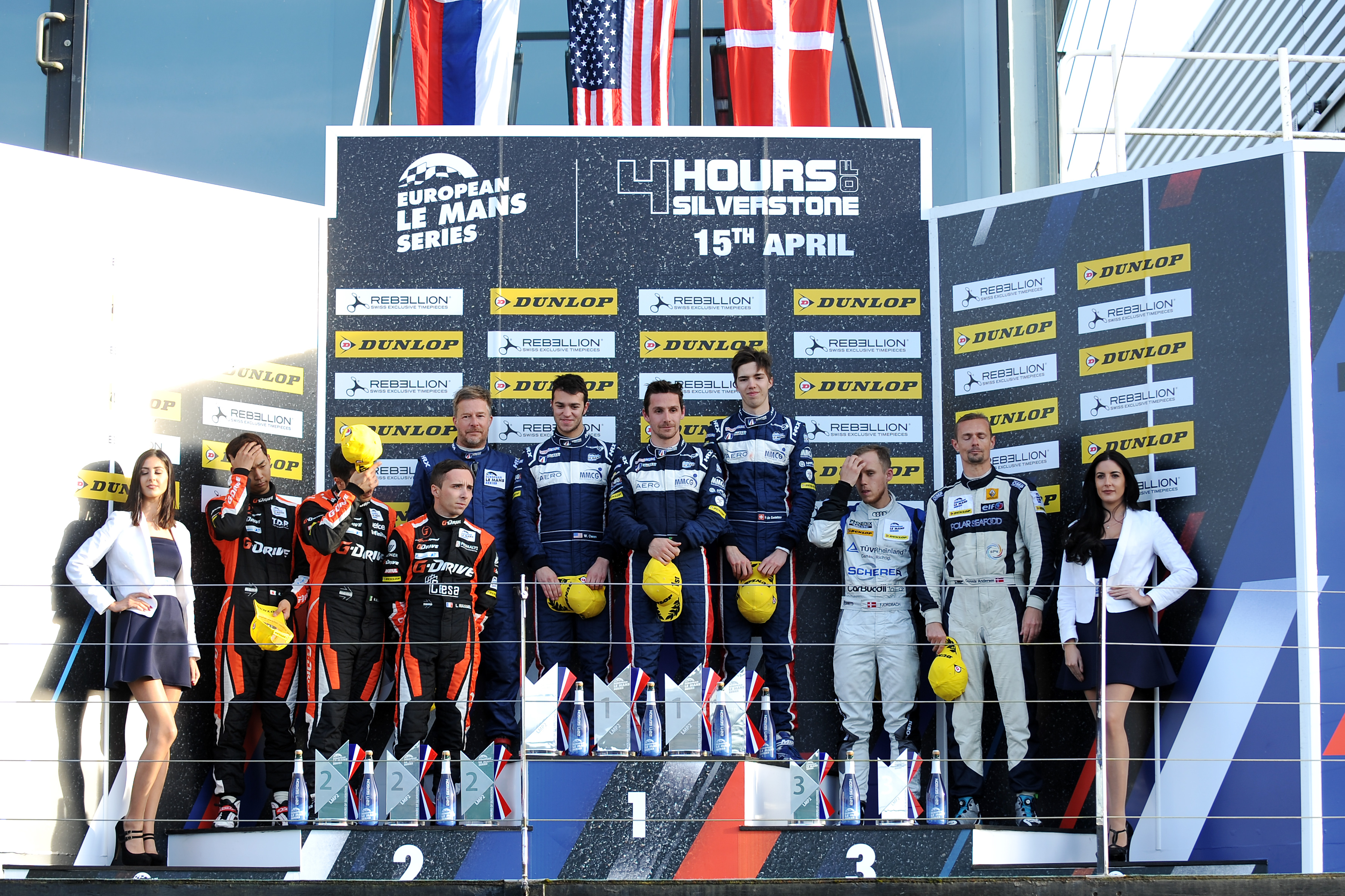 2018 4 Hours of Silverstone - Podium